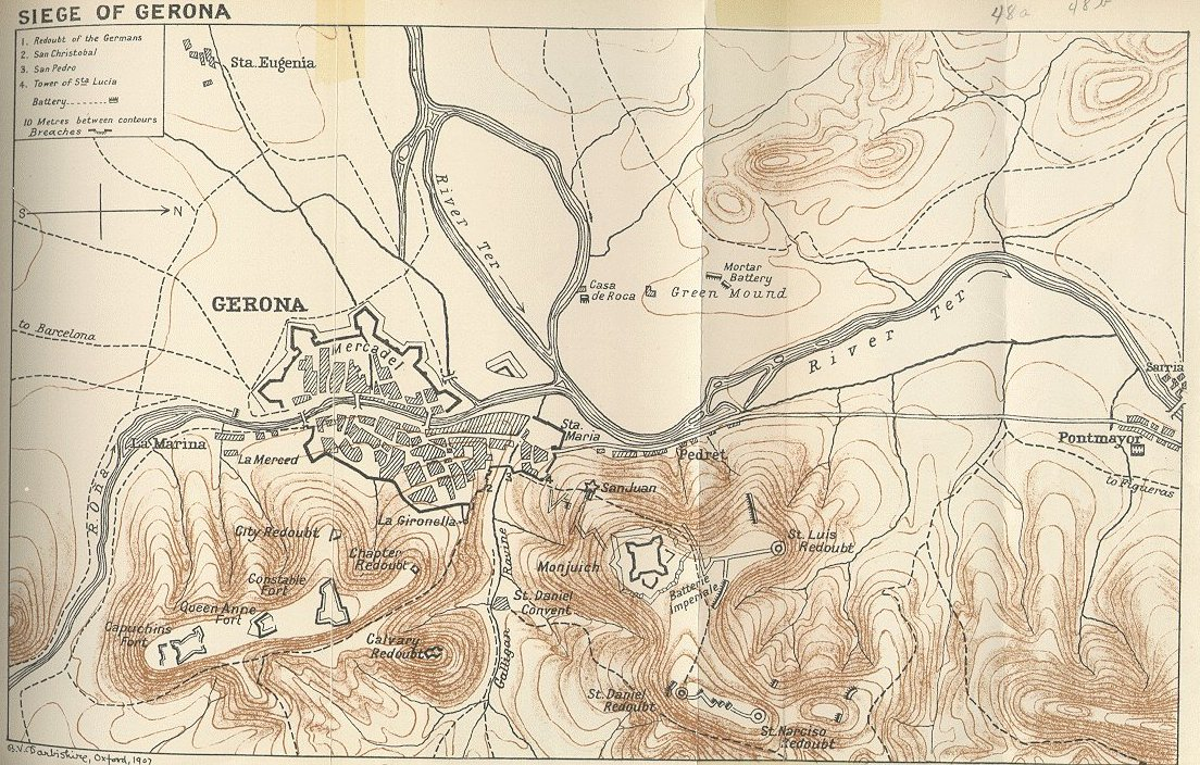 Map of the Third Siege of Gerona 1809 indicating city defenses and French deployments around the city. From A History of the Peninsular War, Volume III by Charles Oman. Signed B.V. Darbishire 1907.